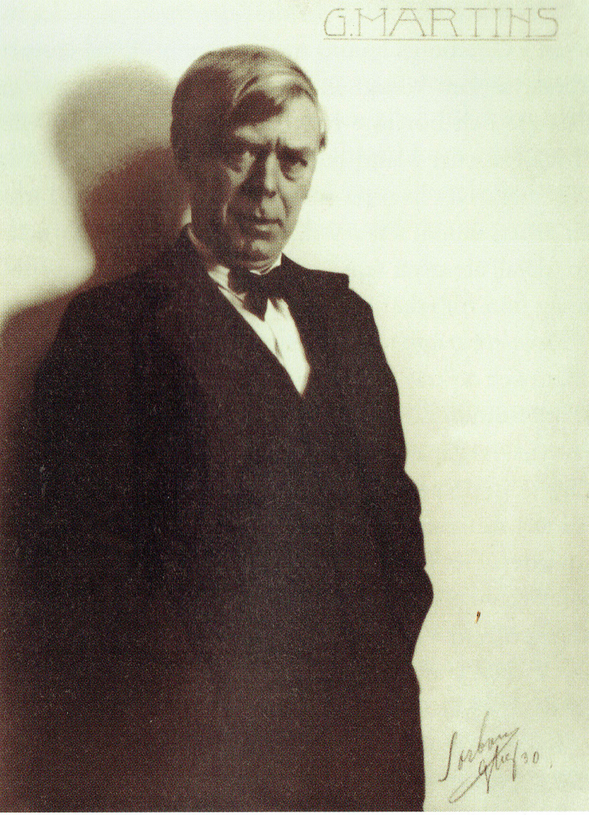 Gideon Martins (1882-1939)